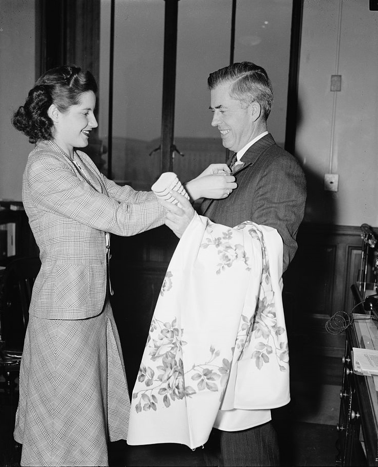 [Henry A. Wallace (right)]